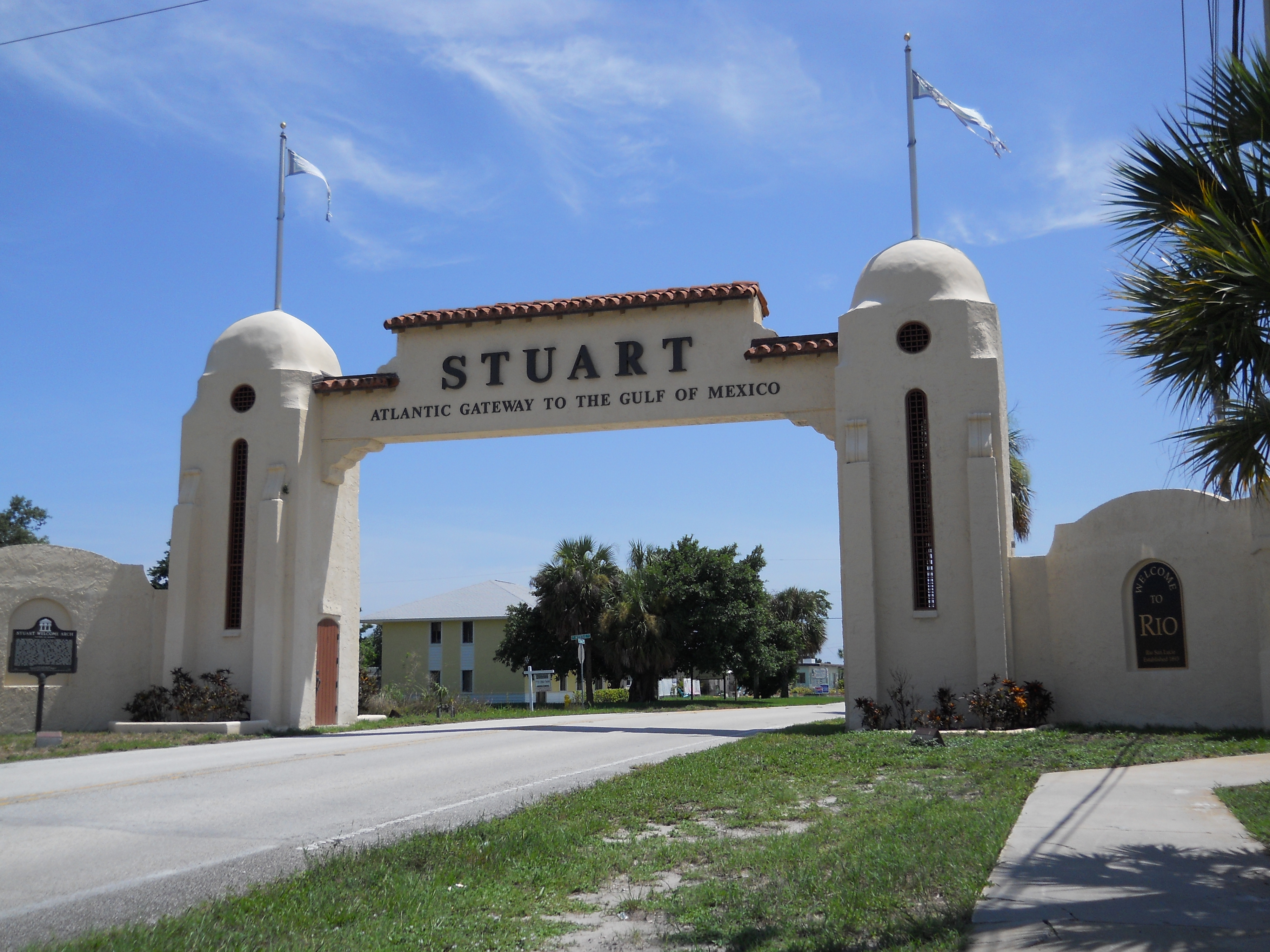 Stuart Welcome Arch on NE Dixie Highway, State Road 707, Jensen Beach, Florida, a view from the north